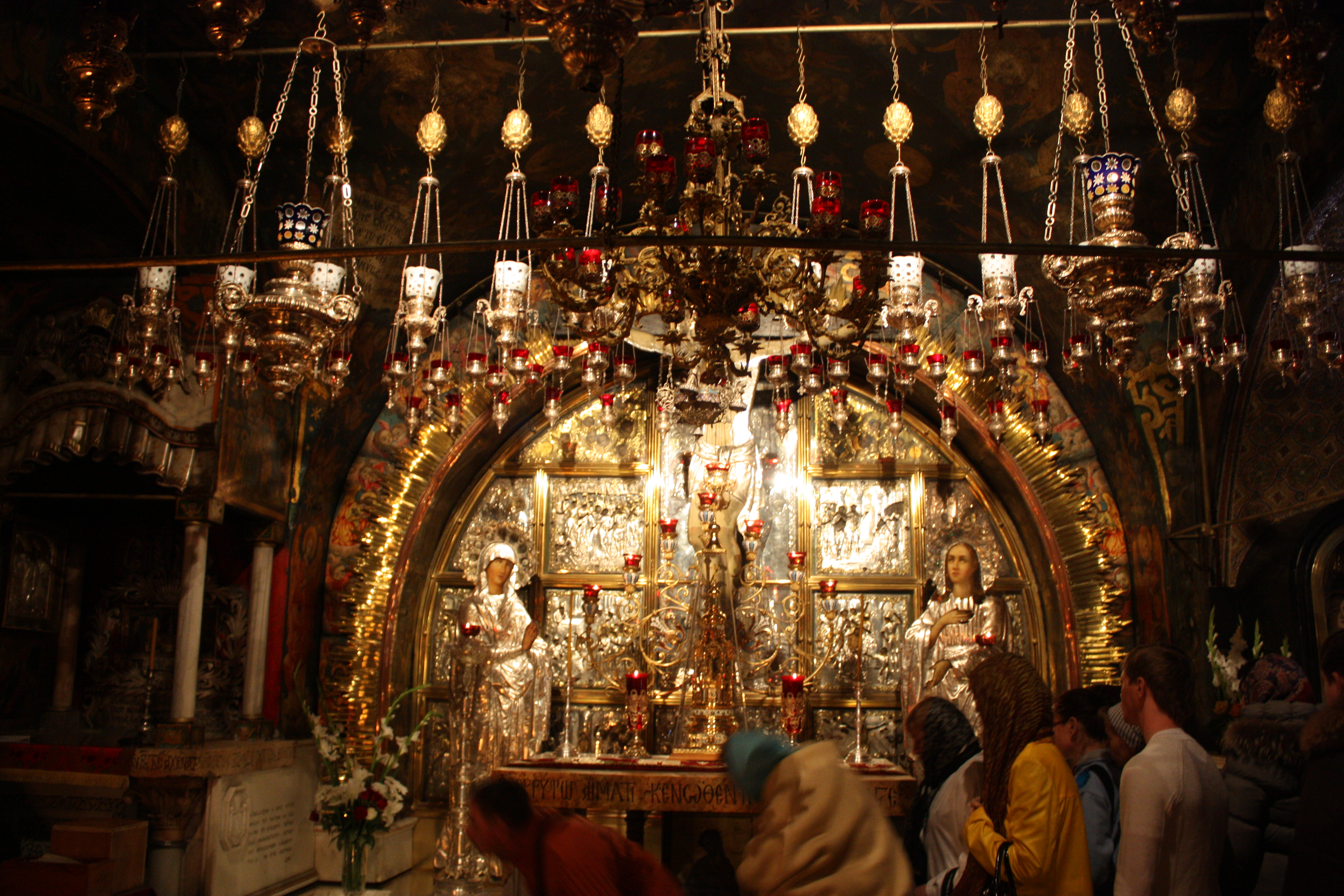 Altar of the Crucifixion in Golgotha in the Holy Sepulchre, Jerusalem.